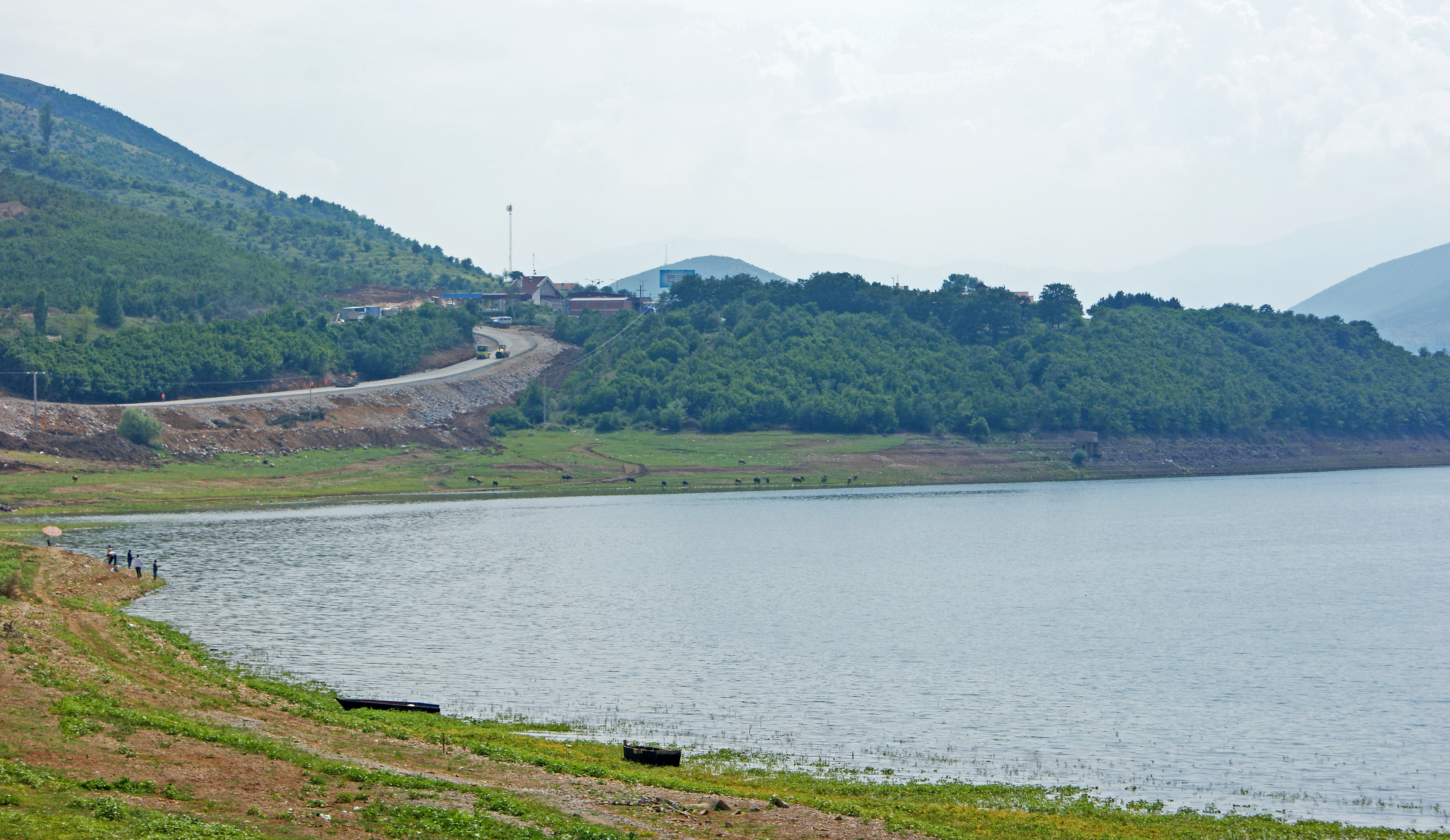 Border of Vërmica/Morina (Kosova/Albania) in 2011 before the construction of the highway